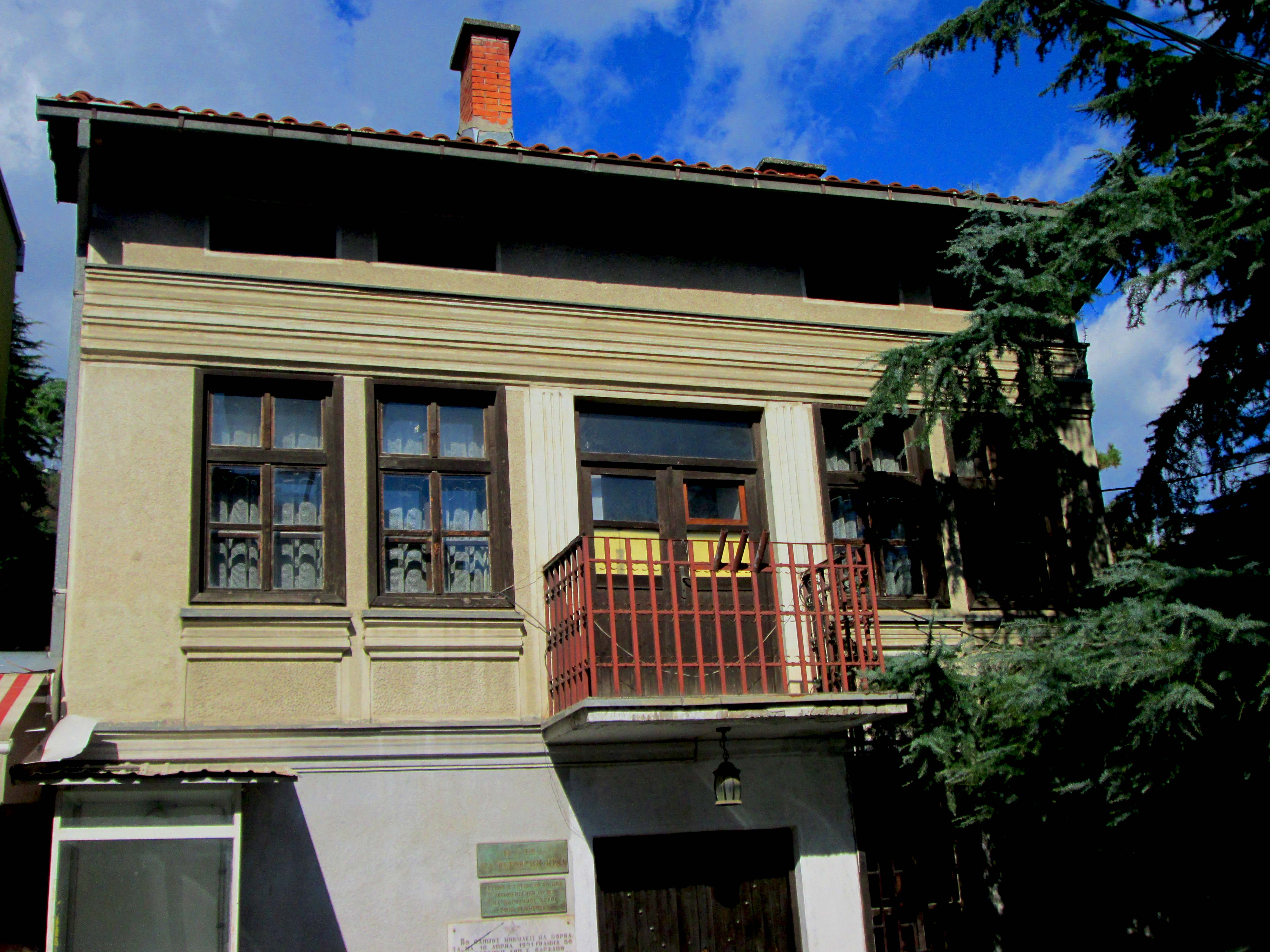 Gjoce Stojcevski Iliev - Ambarche (26.11.1919-19.09.1944) Tetovo, from multiple members family, he was a librarian at the local library, Secretary of the Local Committee of the KPJ and participant in NOD in 1941, the ballistic forces fighting in the village Sipkovica in 1943 was wounded, captured and carried to prison in Tirana, and after the capitulation of Italy escaped and returned to Macedonia and joined the detachment, was killed in battle near the village Belicica and was declared a national hero of Yugoslavia.